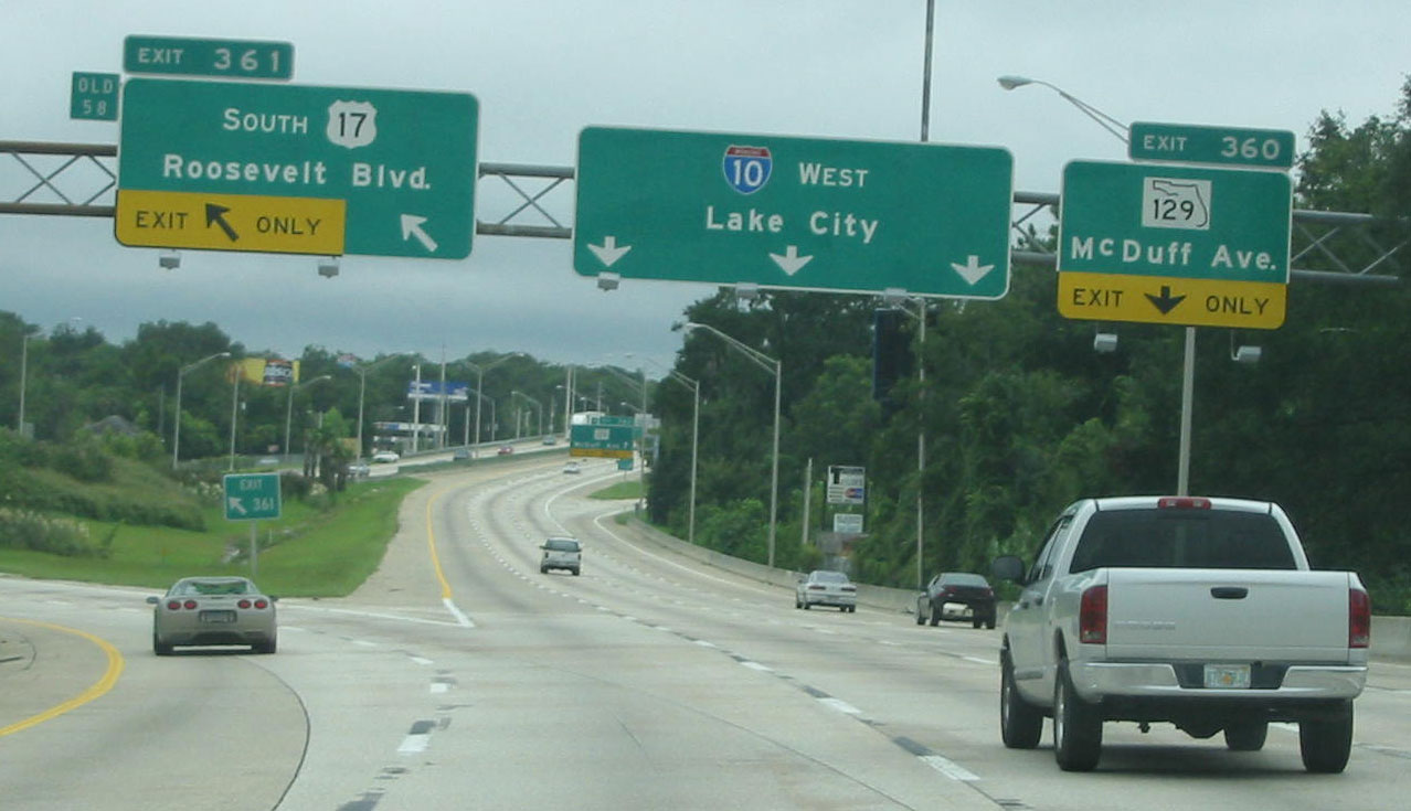 I-10 west at unsigned US 17 Alternate in Jacksonville, Florida. Taken August 10, 2003 by SPUI.